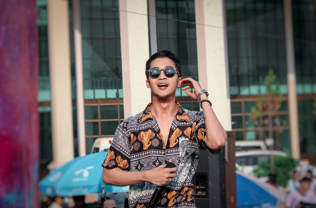 Yair Yint Aung is a famous Burmese singer and actor.